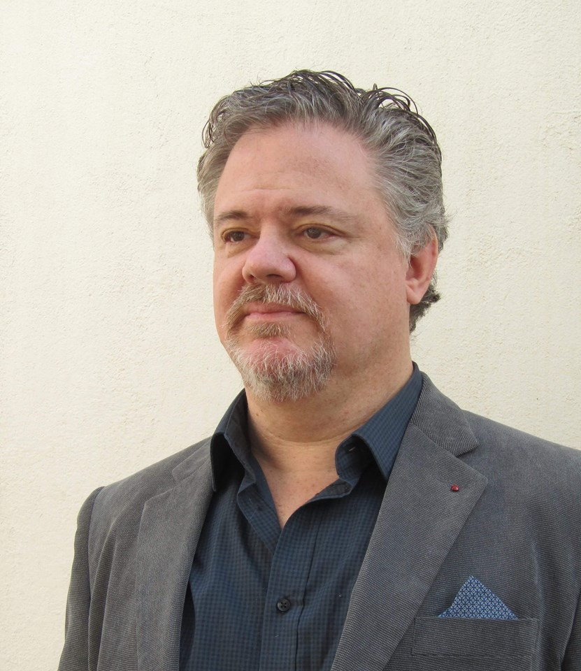 The Argentinian composer, conductor and musician Martín Palmeri